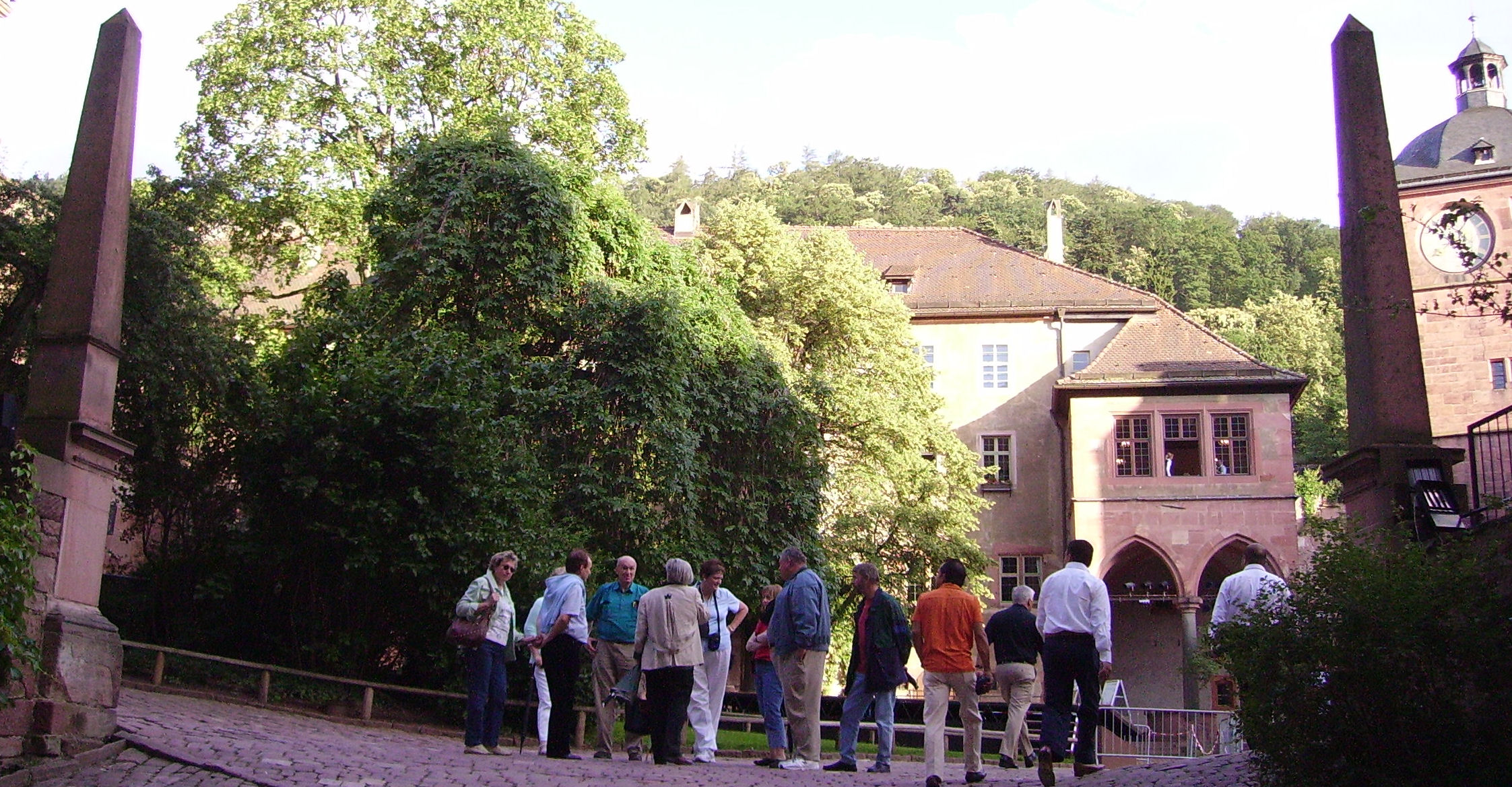 Heidelberger Schloss